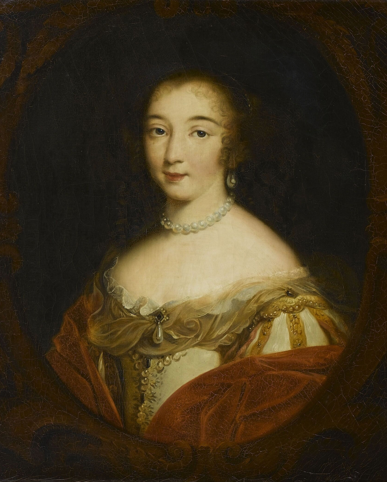 Françoise Madeleine d'Orléans, Duchess of Savoy by Rioult